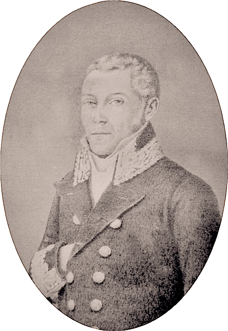 This is the pic of Jonathas Granville as represented in his biography published by his on in 1873.